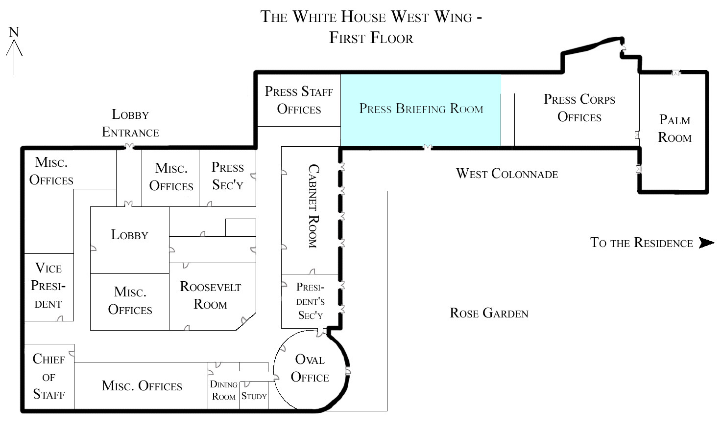 A floorplan of the first floor of the West Wing of the White House. Note that, depending on the administration, some positions (V.P., Chief of Staff, etc.) may be located in different offices than are shown here. Image is not to scale. In blue, the James S. Brady Briefing Room.